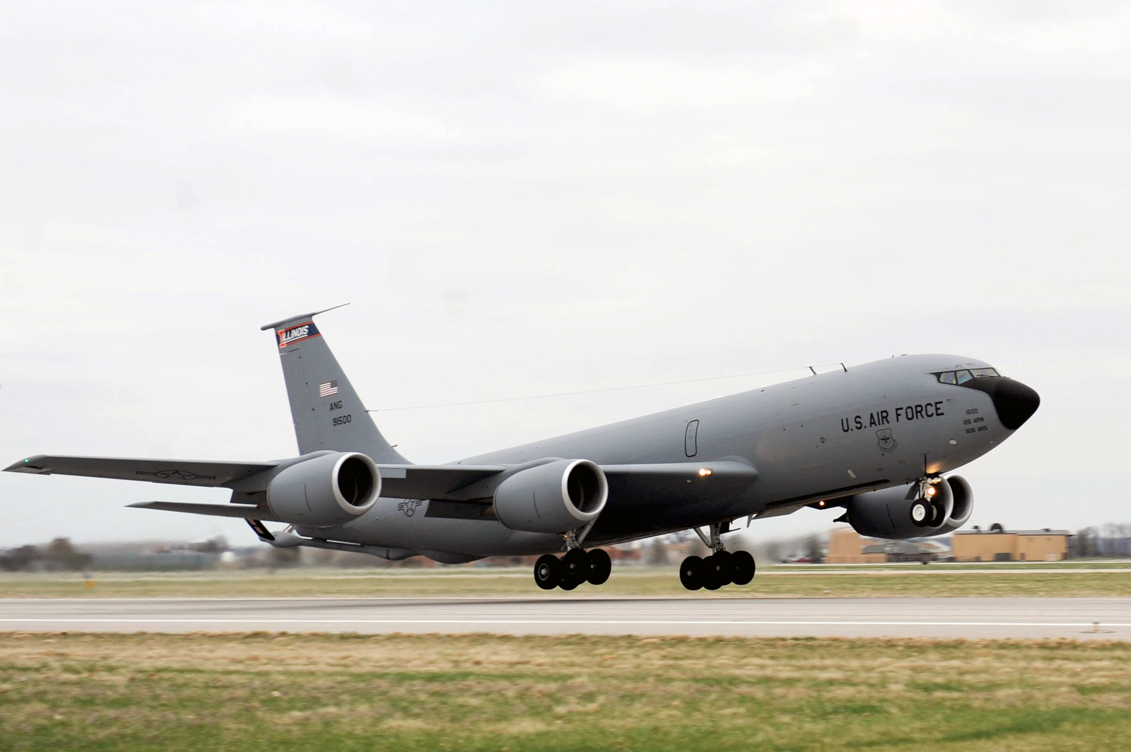 A KC-135 Stratotanker takes off to a forward deployed location in support of Joint Task Force Odyssey Dawn, 24 March 2011 at Scott Air Force Base, Illinois (USA). The KC-135s will provide air-refueling support to coalition aircraft enforcing a no-fly zone over Libya. Joint Task Force Odyssey Dawn is the U.S. Africa Command task force established to provide operational and tactical command and control of U.S. military forces supporting the international response to the unrest in Libya and enforcement of United Nations Security Council Resolution (UNSCR) 1973. UNSCR 1973 authorizes all necessary measures to protect civilians in Libya under threat of attack by Qadhafi regime forces. JTF Odyssey Dawn is commanded by U.S. Navy Admiral Samuel J. Locklear, III. (U.S. Air Force photo by Staff Sgt. Brian J. Valencia) (Released)